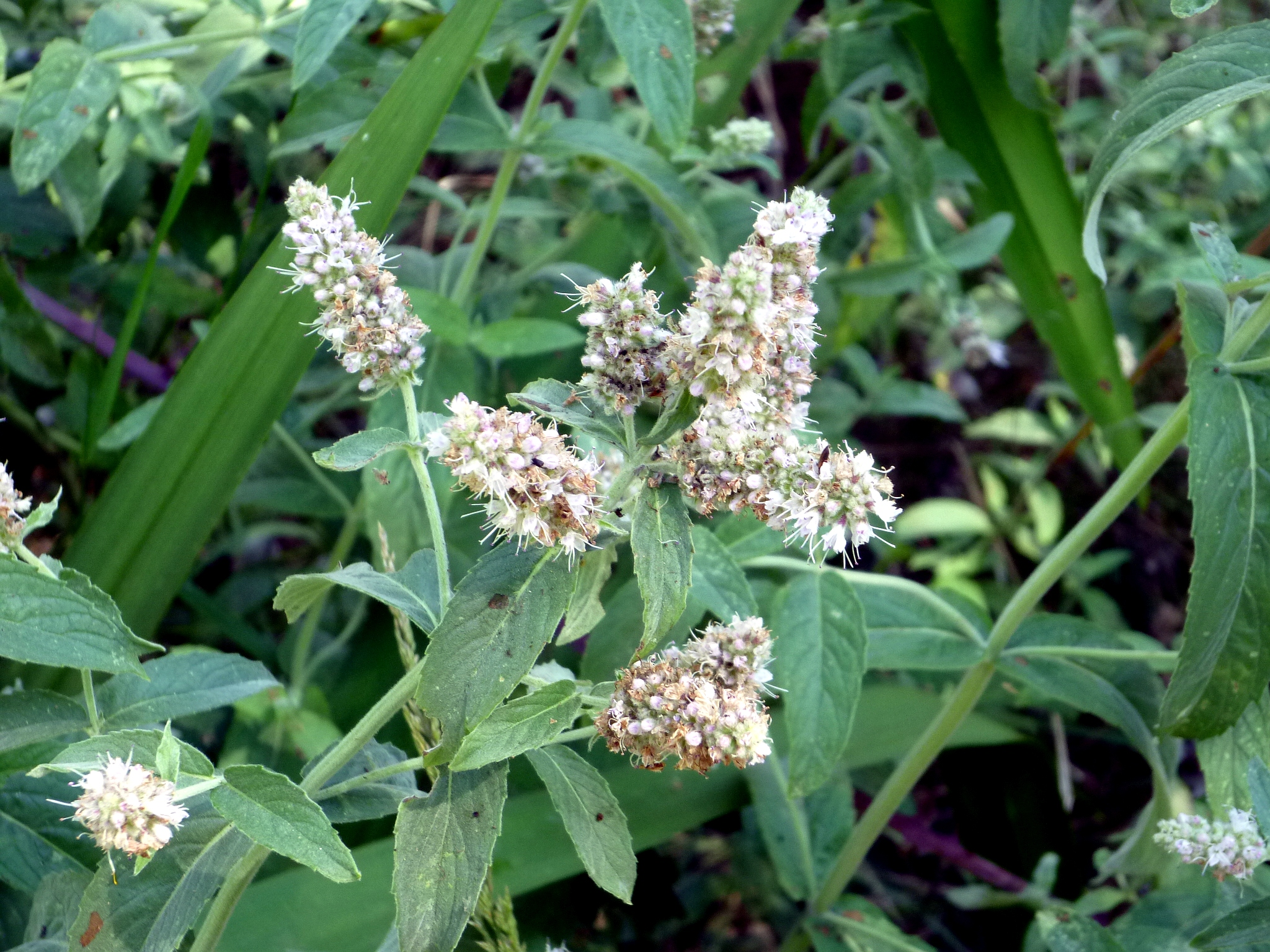 Mentha longifolia. In Torà (Segarra - Catalunya). To 570 m. altitude